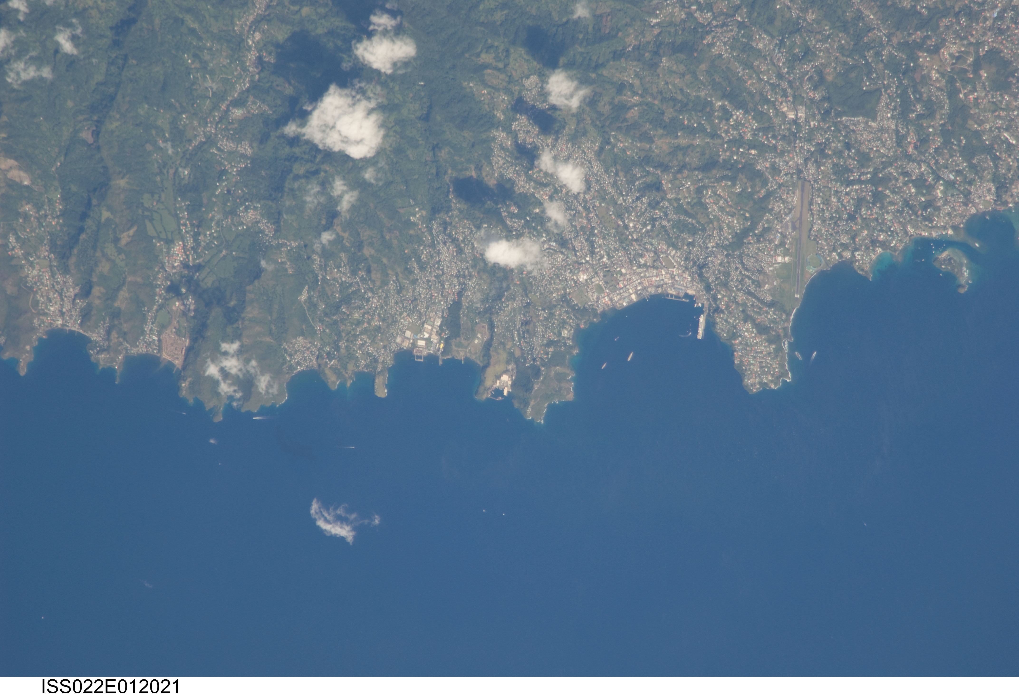 Astronaut Photo of Kingston